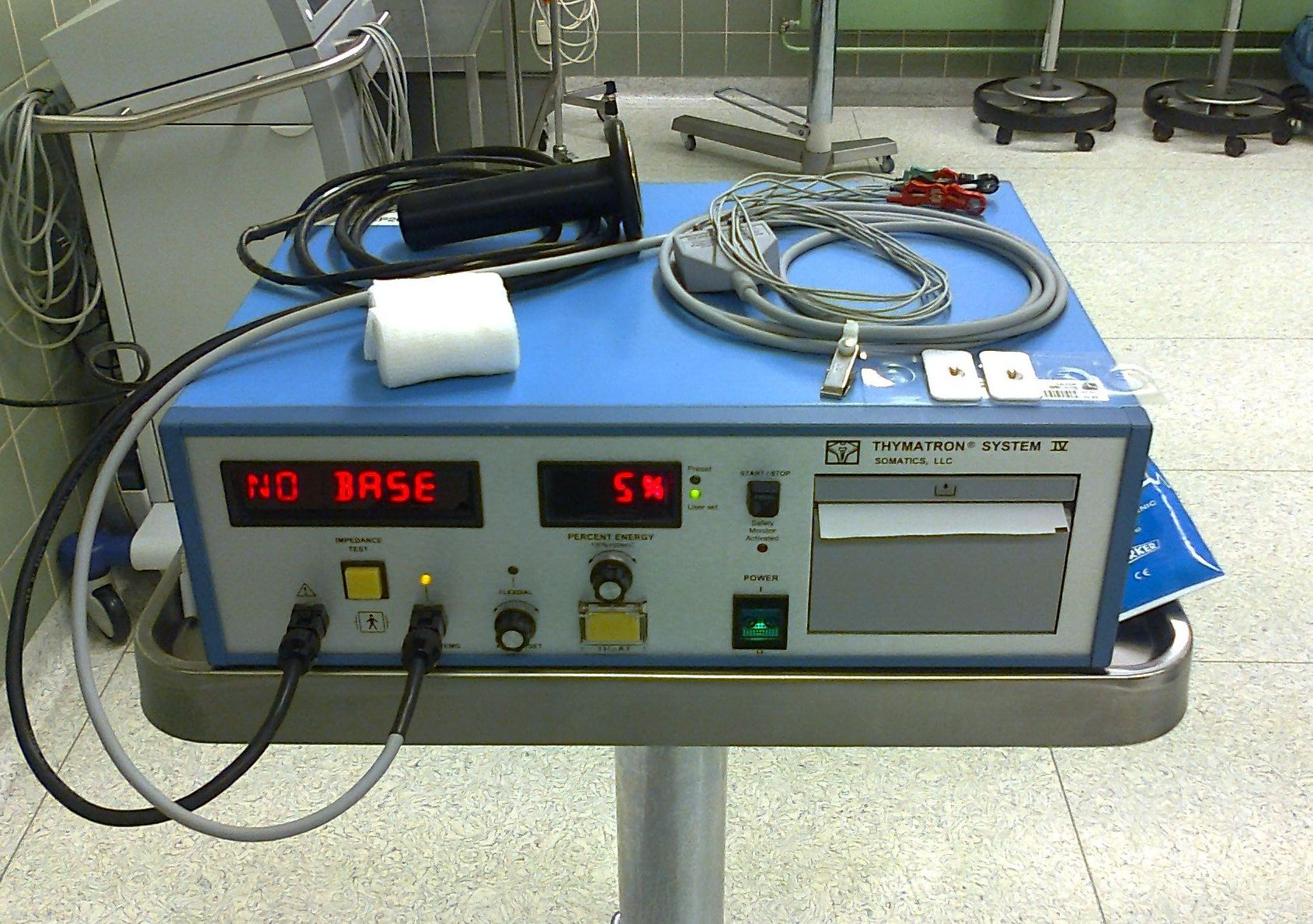 Thymatron IV (Somatics) device for electroconvulsive therapy